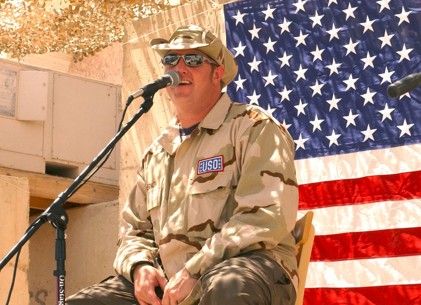 BAGHDAD, Iraq -- Gary LeVox, lead singer for country music group Rascal Flatts, performs for Airmen and Soldiers at Baghdad International Airport on Aug. 5 from a make-shift stage behind a building that was once Saddam Hussein's military base operations facility. The group was here as part of a United Services Organization tour.